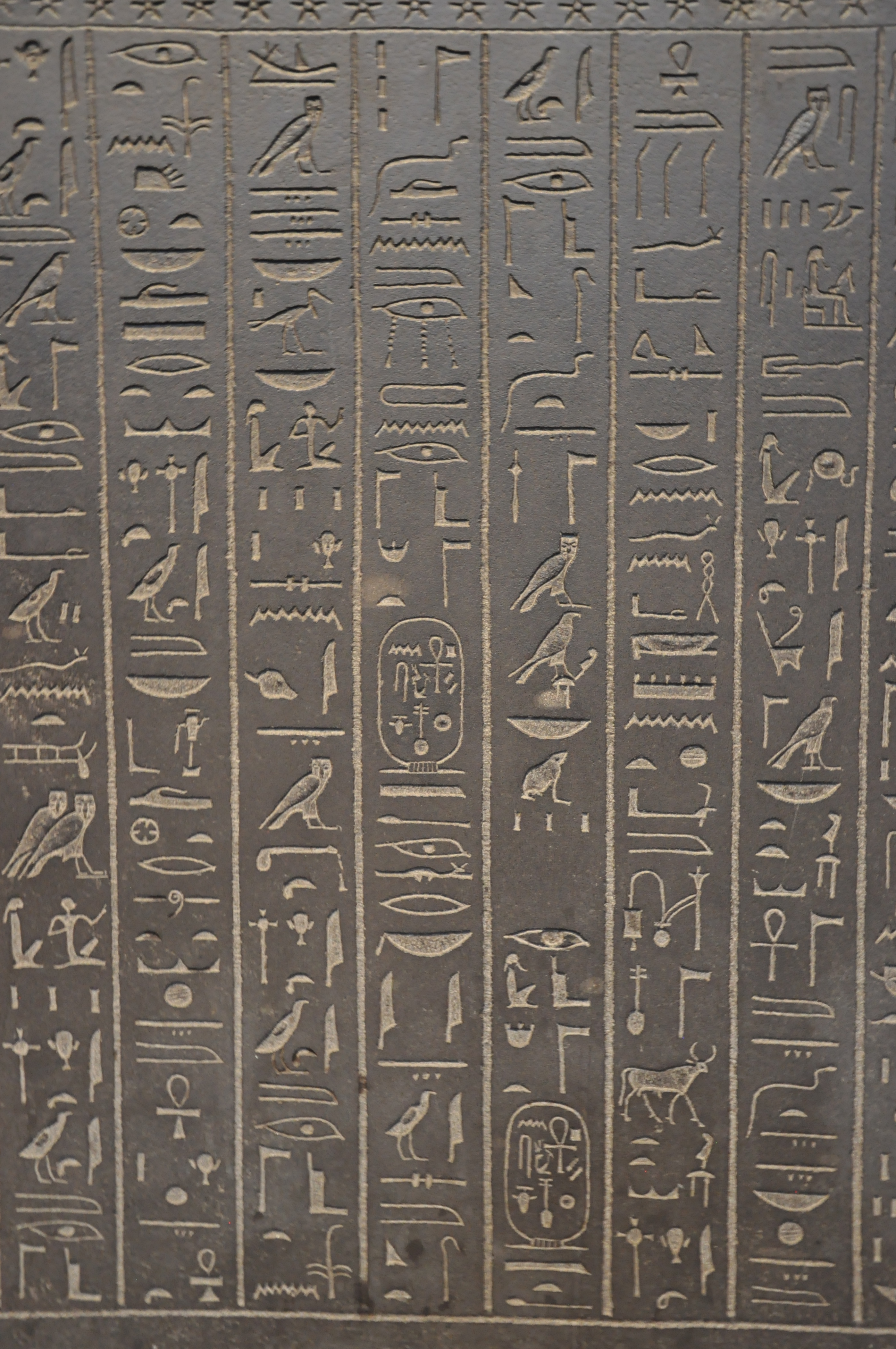 Sarcophagus of Ankhnesneferibre. British Museum